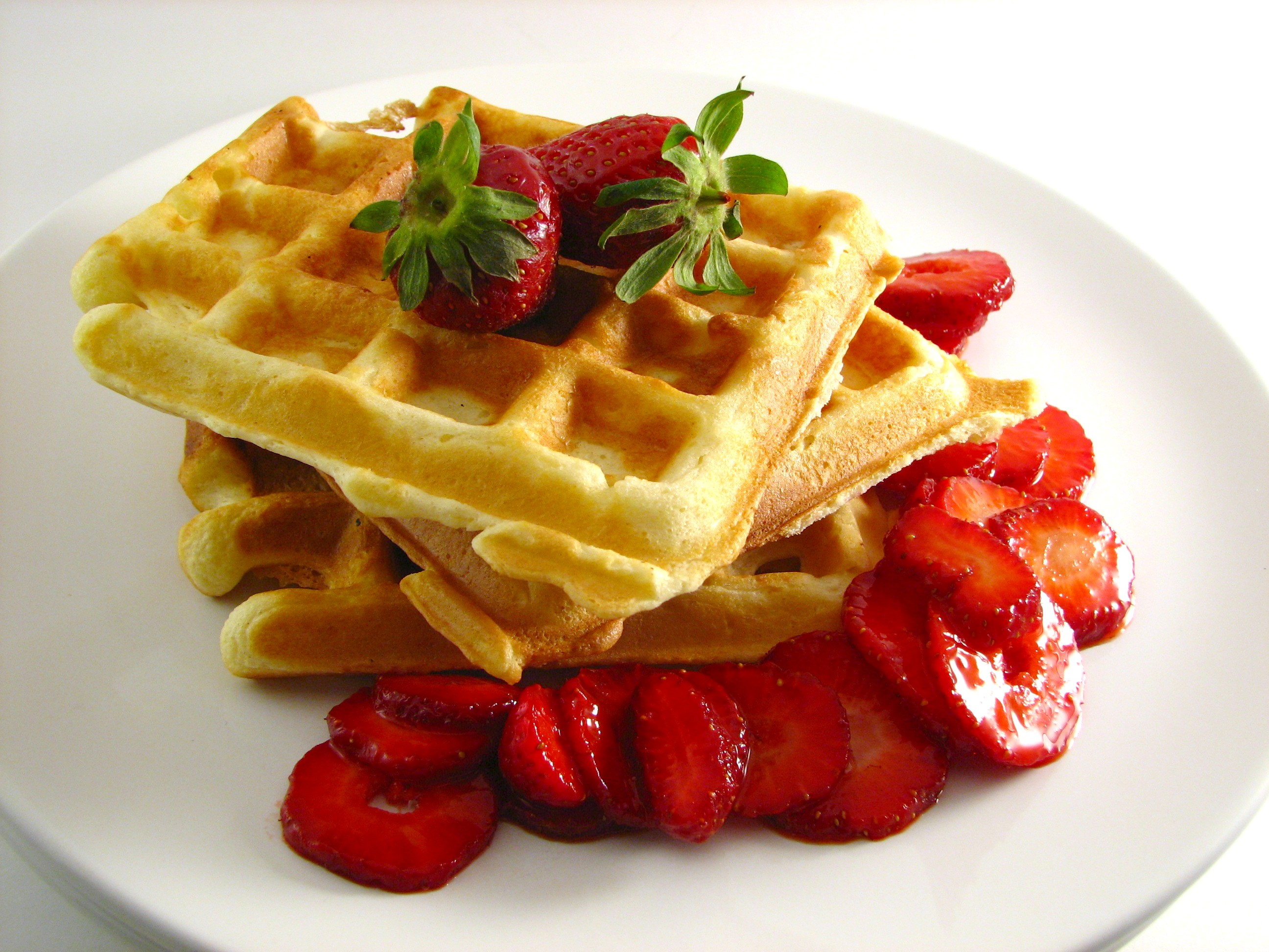 A Belgian Waffle (a North American style of waffle) with strawberries